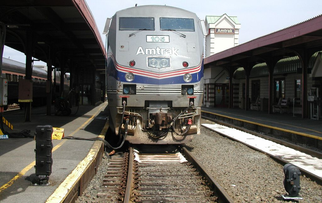 Amtrak Springfield Shuttle trains lays over on Track 5 next to the current Springfield Union Station building in Springfield.